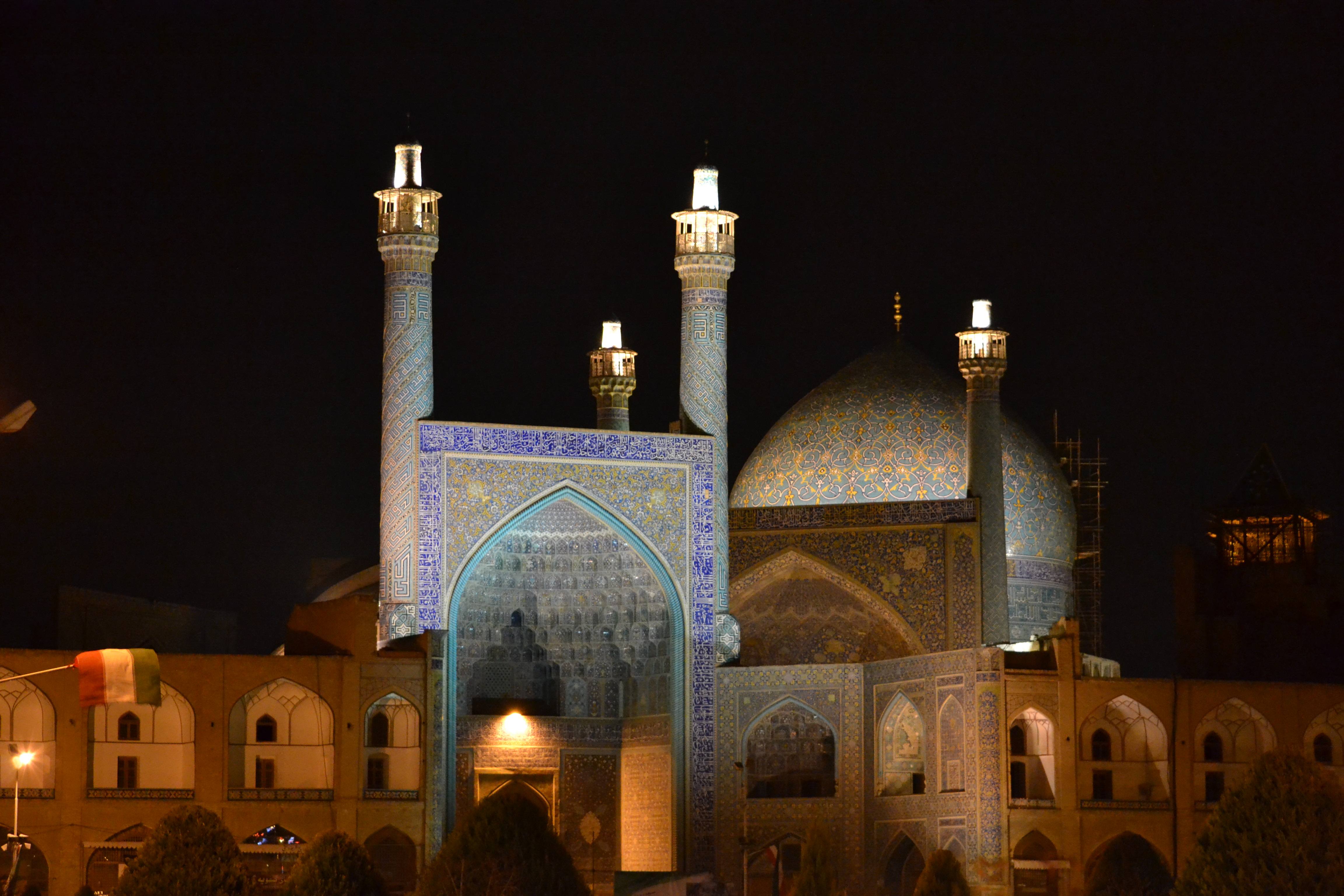 The Shah Mosque in Esfahan, Iran by night